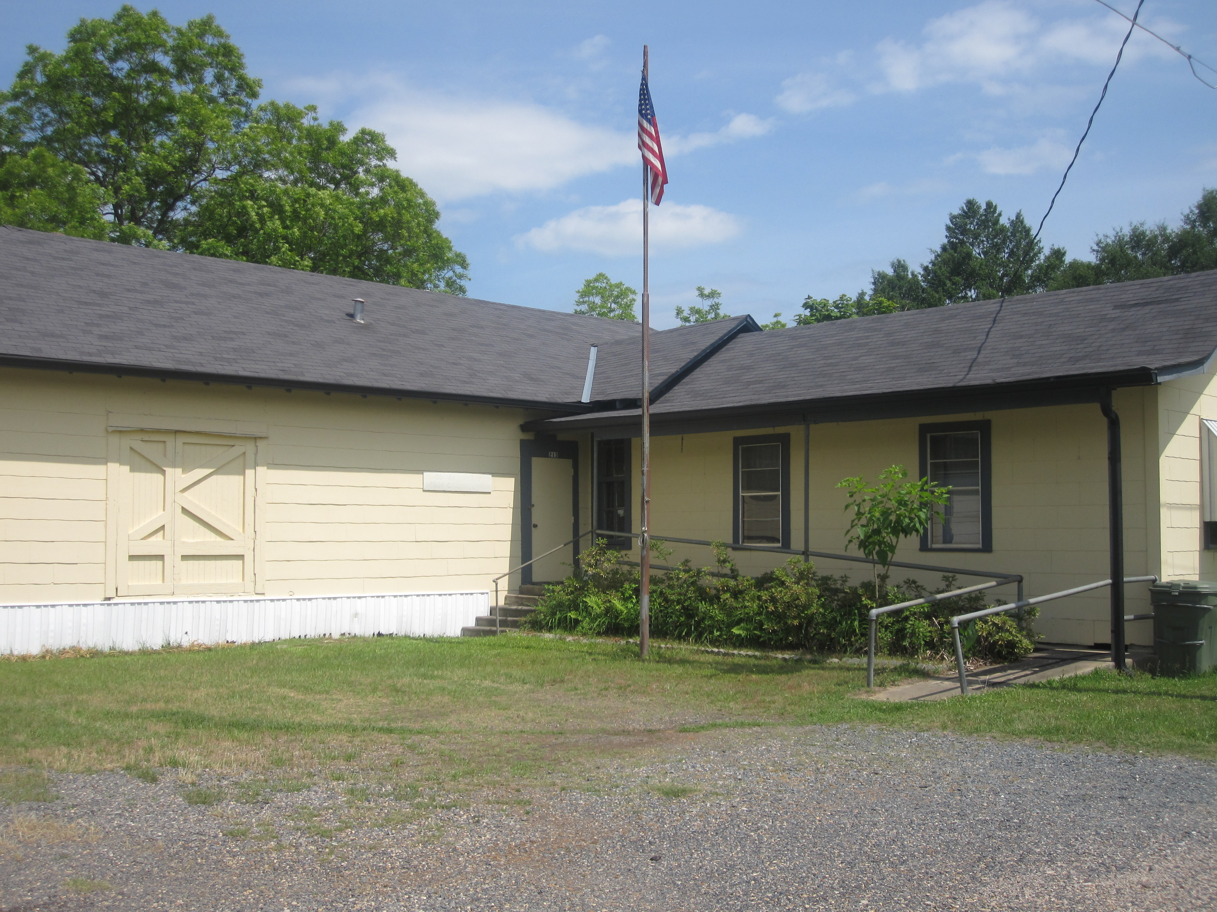 I took photo with Canon camera.